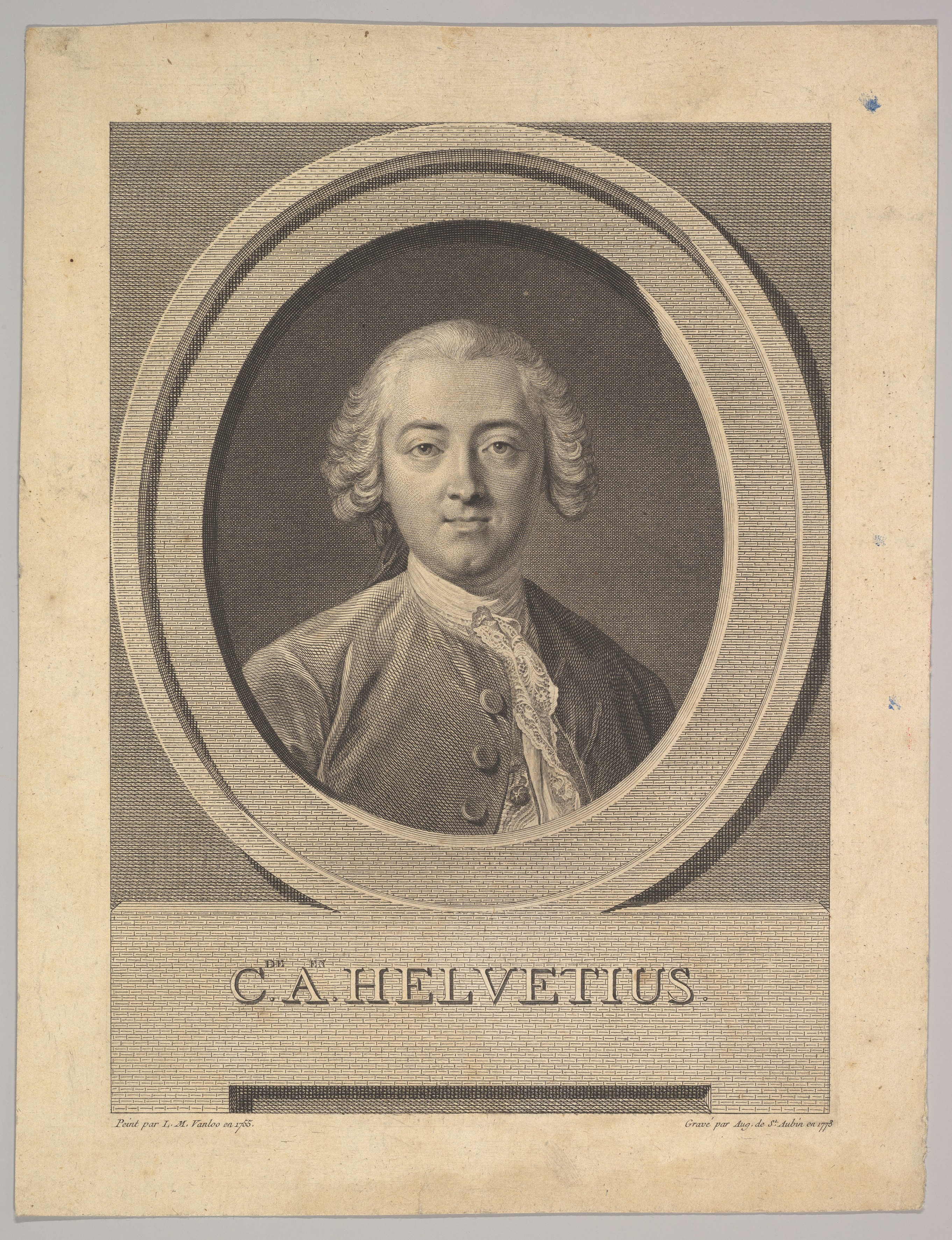 Print; Prints